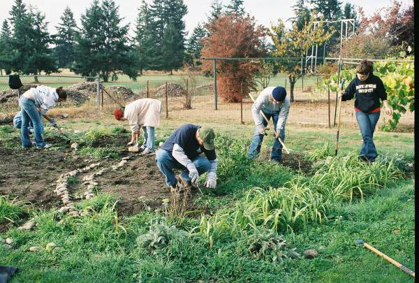 A community garden in Montreal, Canada